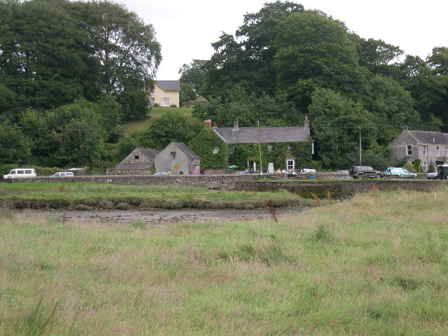 Cresselly Arms from across the river.